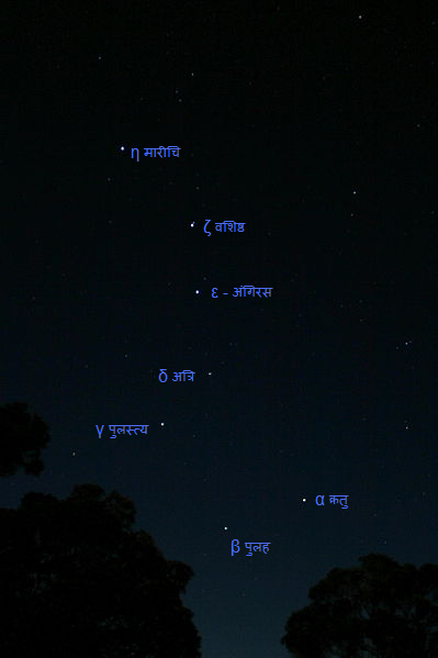 Photographer: myself, Gh5046 A picture of the Big Dipper taken 2007/08/23 from the Kalalau Valley lookout at Koke'e State Park in Hawaii. The brightness/contrast of the photo has been adjusted and it has been cropped, otherwise it is in its original state.